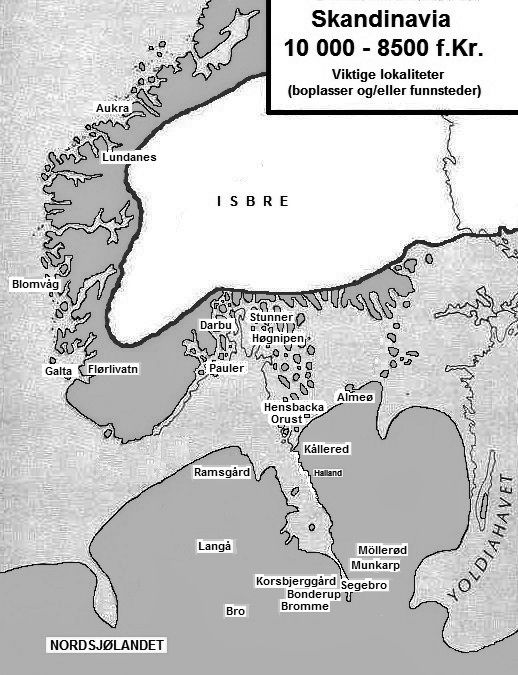 Early Lower Mesolithic (10 000-8500 BC calibrated) settlement sites (including tools made of flint) in Scandinavia.